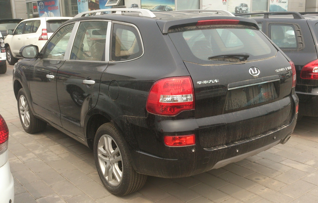 Hawtai B35 Baolige photographed in Beijing, China.